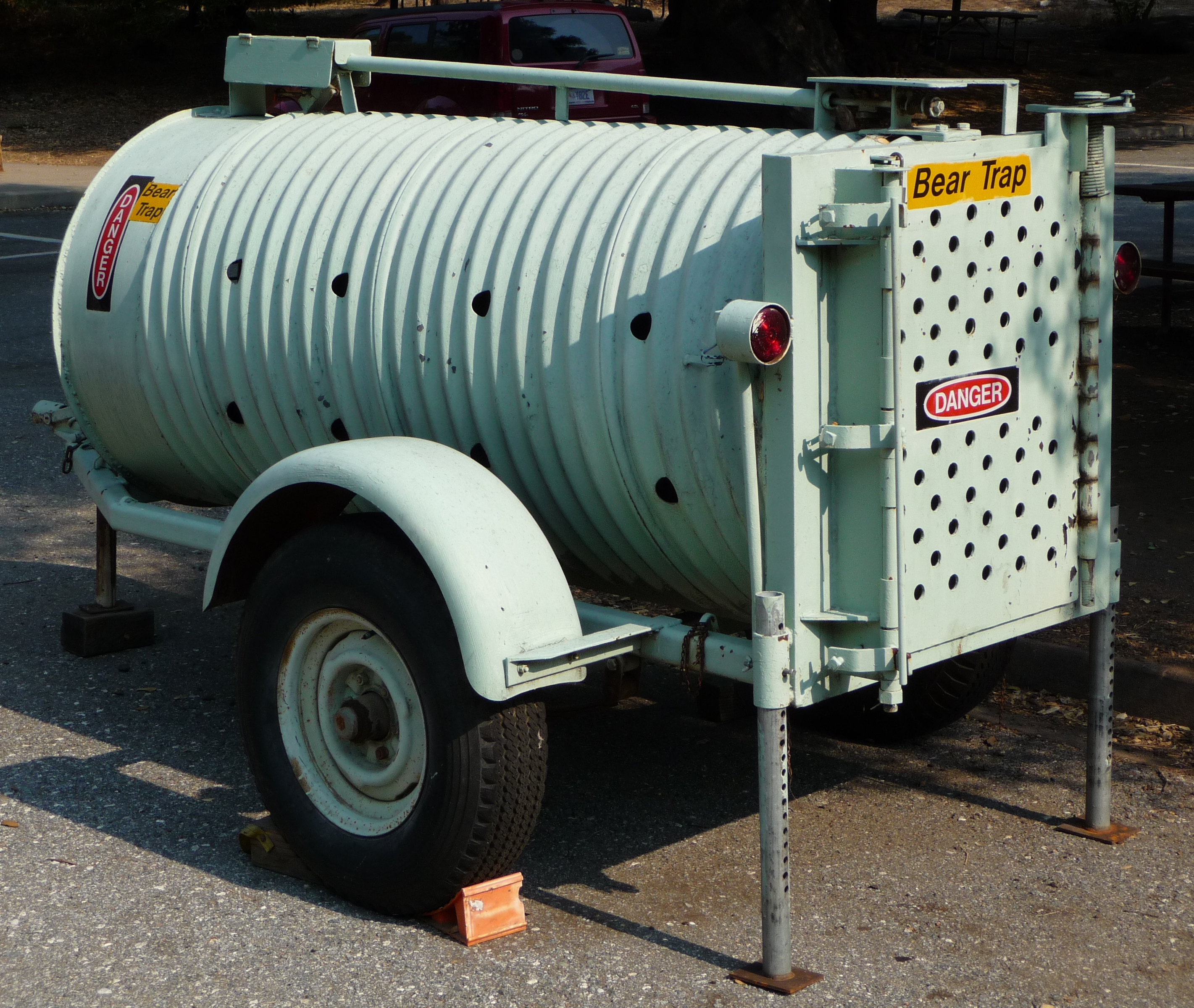 Sequoia National Park - Bear Trap in Hospital Rock parking lot